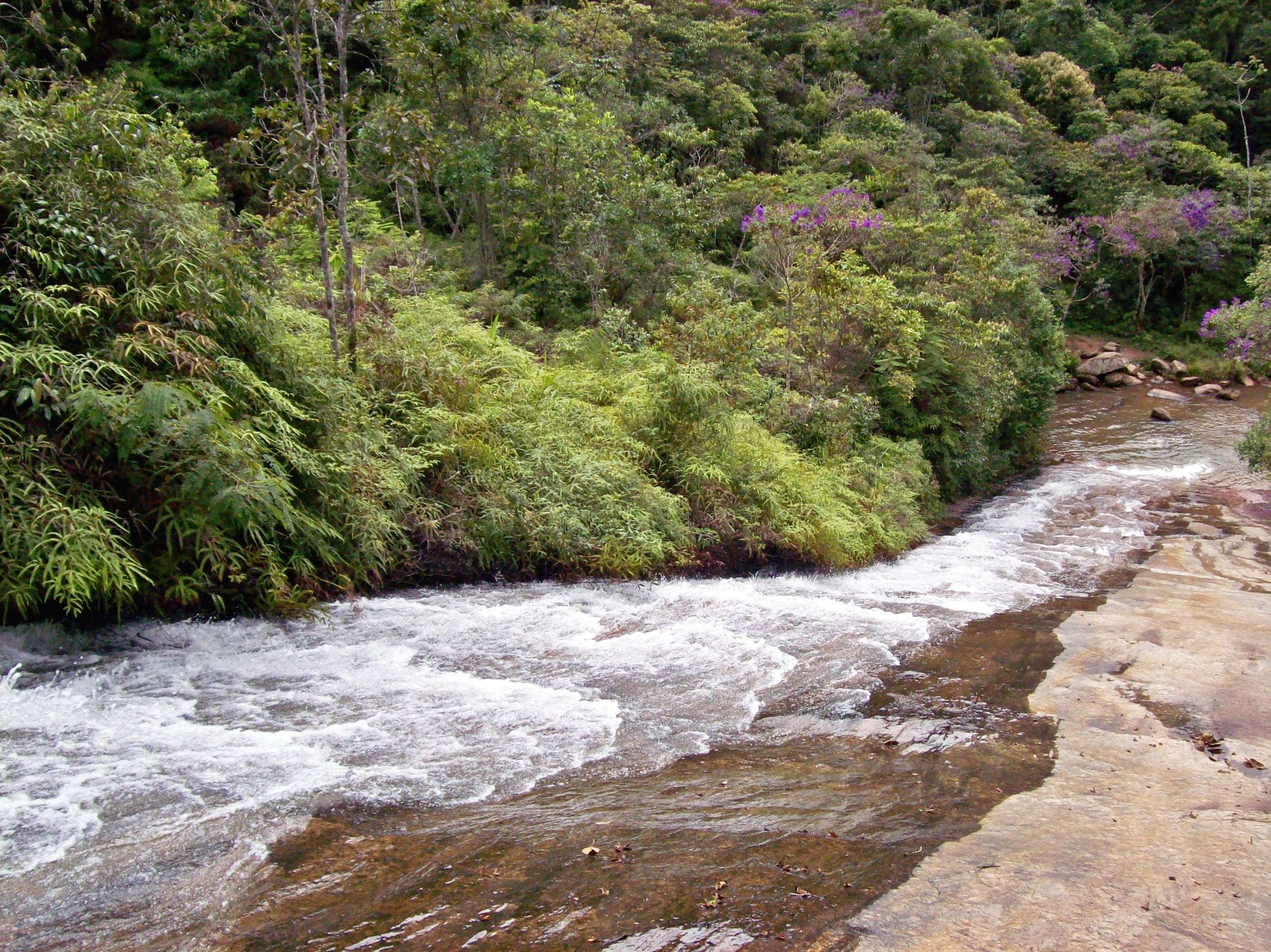 Downhill of the Escorregador Waterfall, in Coronel Fabriciano, Minas Gerais, Brazil.